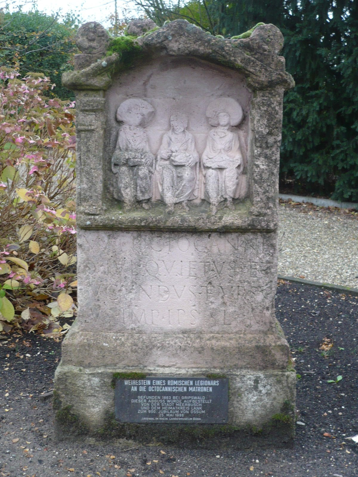 Gallo-Roman-Germanic Matres and Matrones: Replica of an altar for the Mothers of Octocannia (Matronae Octocannae) from Meerbusch, North Rhine-Westphalia, Germany (CIL XIII, 08571 = Lehner 00336).